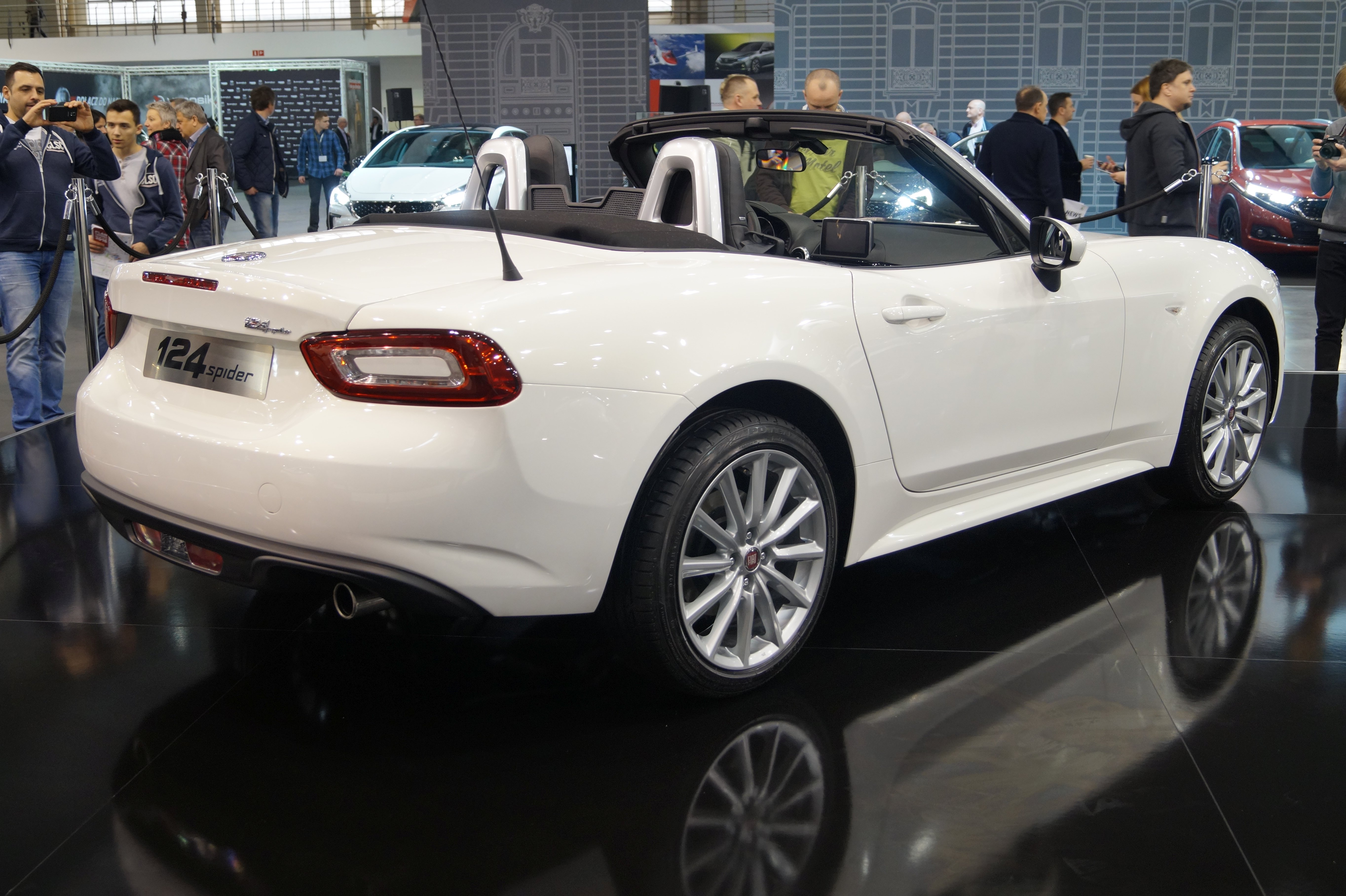 The making of this document was supported by Wikimedia Polska Association, within Wikigrant no. WG 2016-10. Tył Fiata 124 Spider na Motor Show Poznań 2016